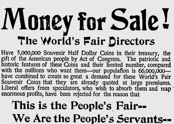 Excerpt from advertisement placed by the directors of the World's Columbian Exposition Company soliciting orders for the new Columbian half dollar. Millions were left over.